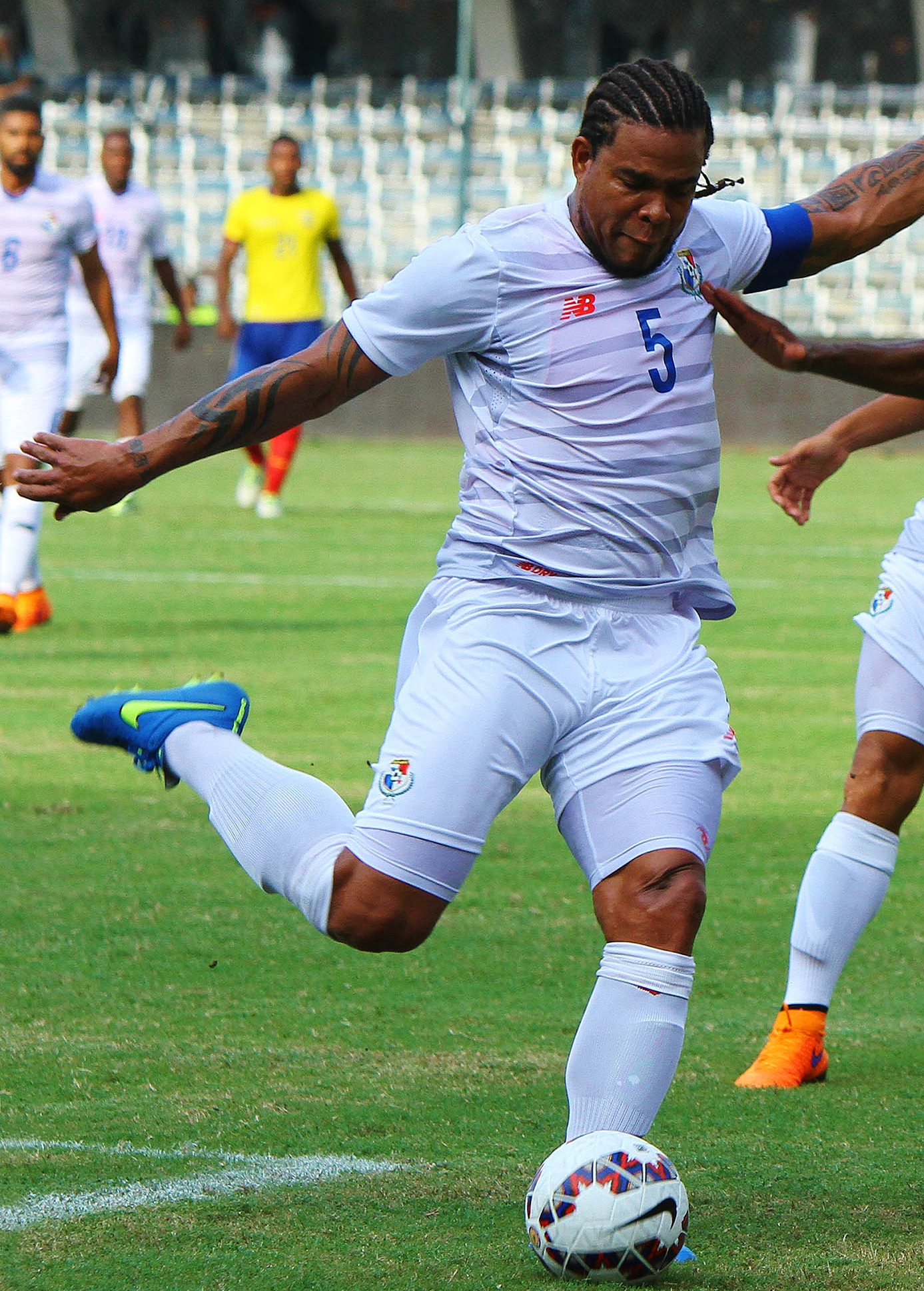 Guayaquil, 06 de jun (Andes).-En el estadio George Capwell, la selección de fútbol de Ecuador se enfrenta a Panamá en partido amistosoFoto: César Muñoz/Andes Román Torres